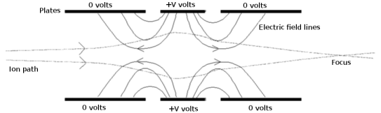 Implementation of an Einzel lens showing the ion path. Six plates are parallel to the ion flight path with the middle plate at a particular potential.